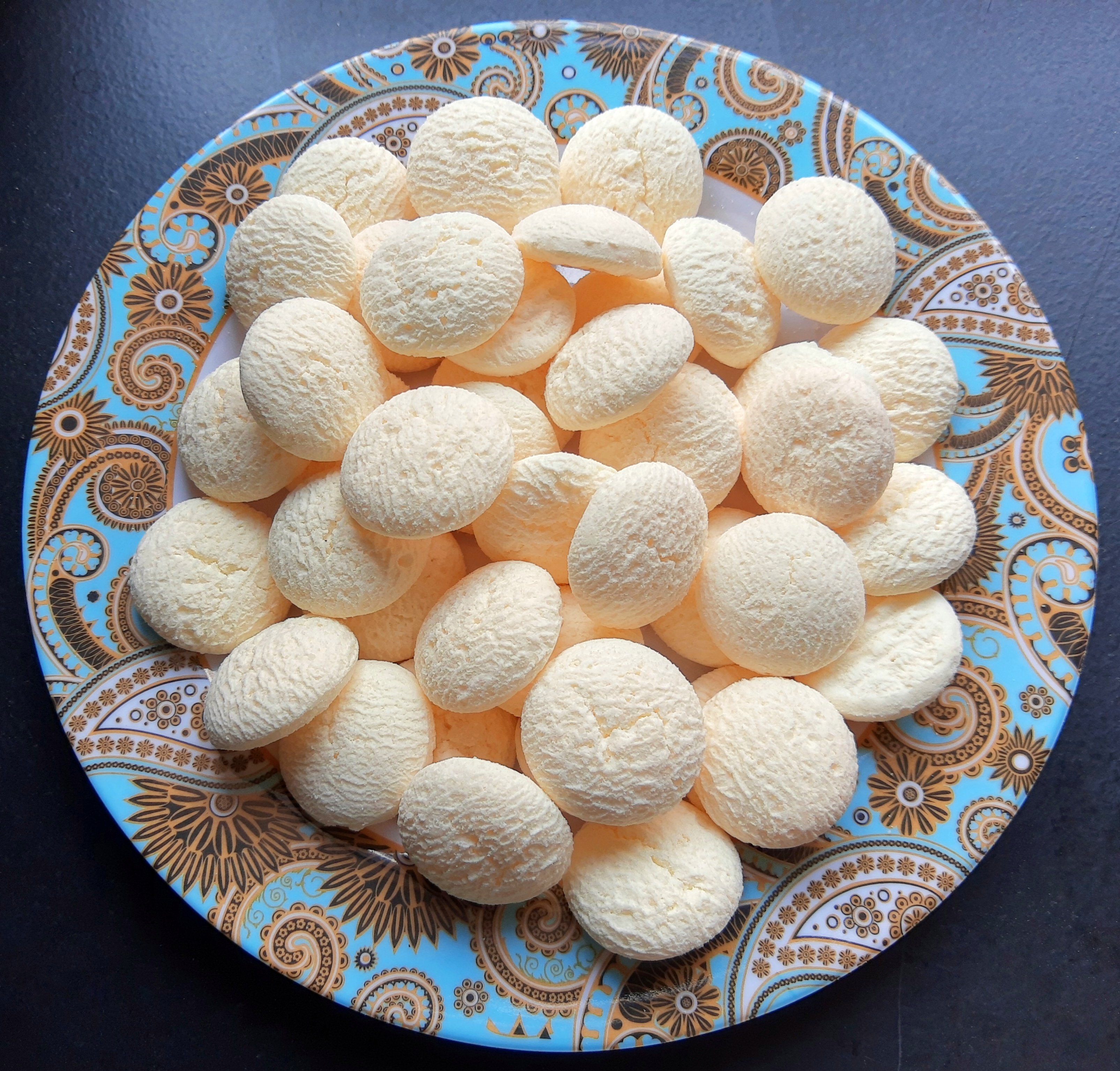 Sequilhos (cassava starch cookies)